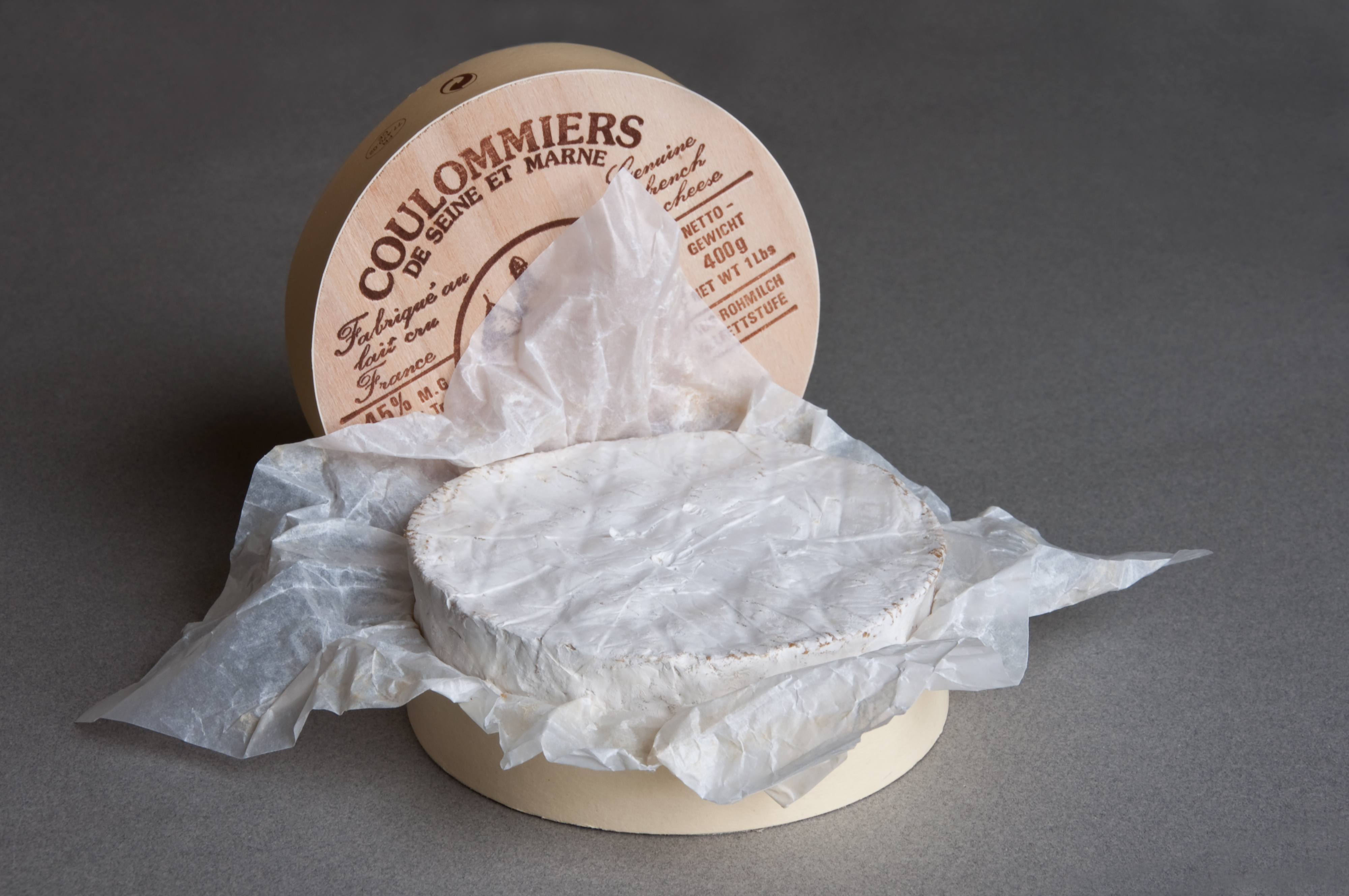 This cheese is a coulommiers made from raw cow's milk and produced in the Seine-et-Marne department of France.